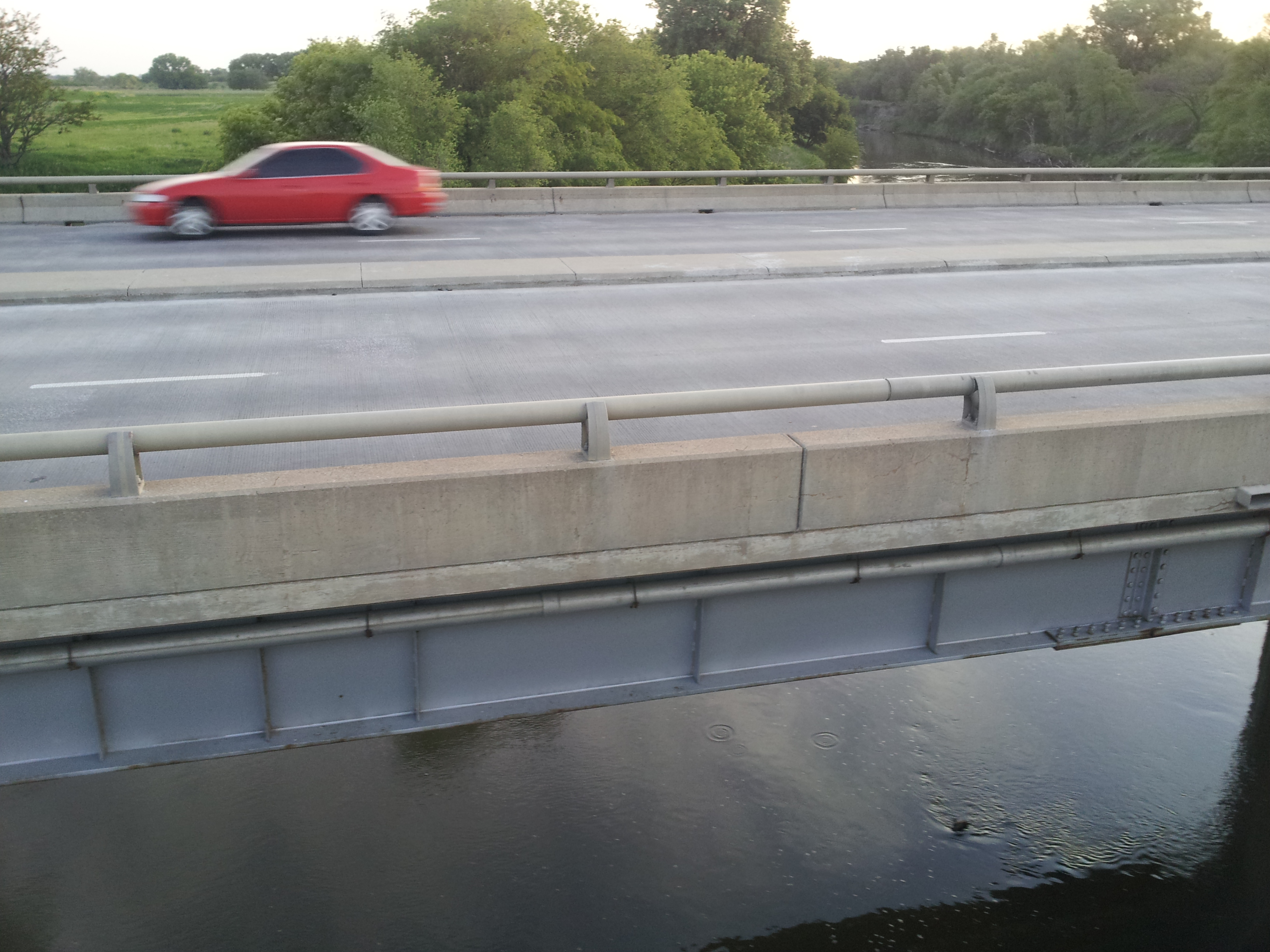 This is a picture of Salt Creek (tributary of the lower Platte River) and the Superior St bridge, as seen facing north from the Superior Street Trail, around 38th & Superior in Lincoln, NE. Picture taken 11 May 2012 at 06:28:19 local time.